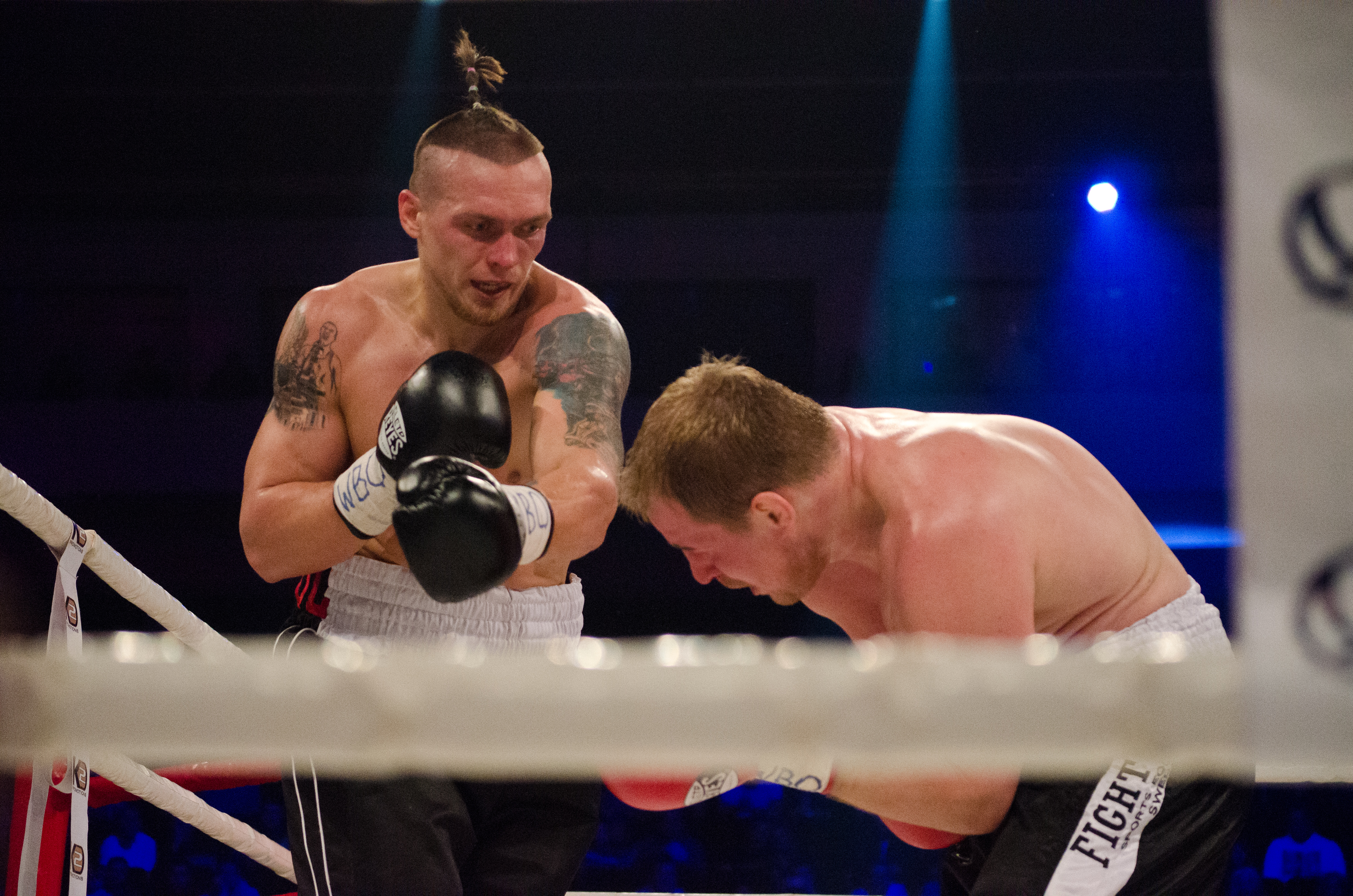 Oleksandr Usyk - Andrey Knyazev boxing fight, Kiev, Ukraine.